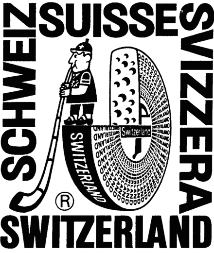 The official seal of the organization, depicting a stereotypical Swiss citizen blowing on an alpine horn while standing on three-quarters of a wheel of Emmental cheese, would be applied to those cheese officially sanctioned and qualified by the Swiss Cheese Union.